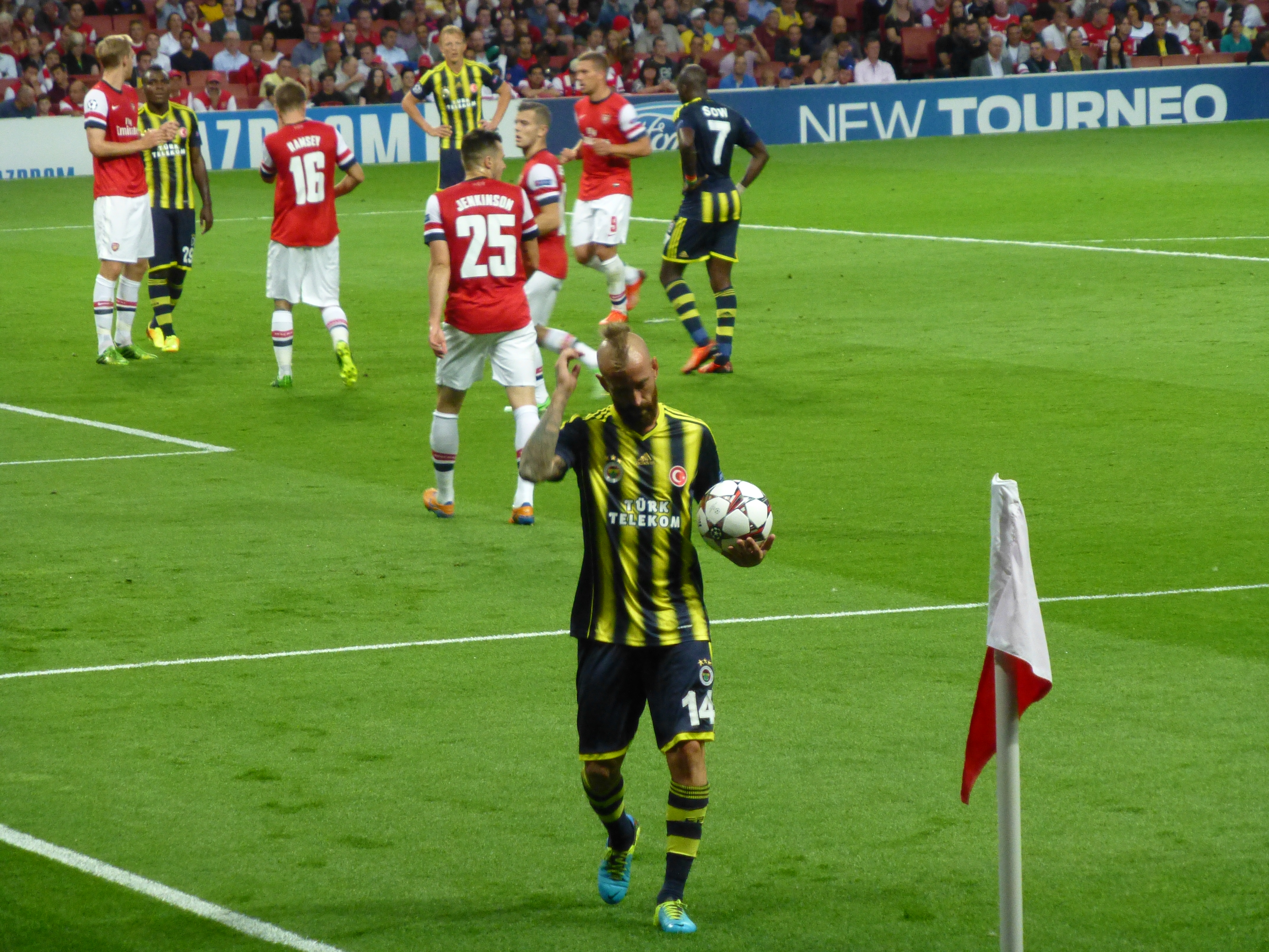 Raul Meireles playing for Fenerbahce in 2013.